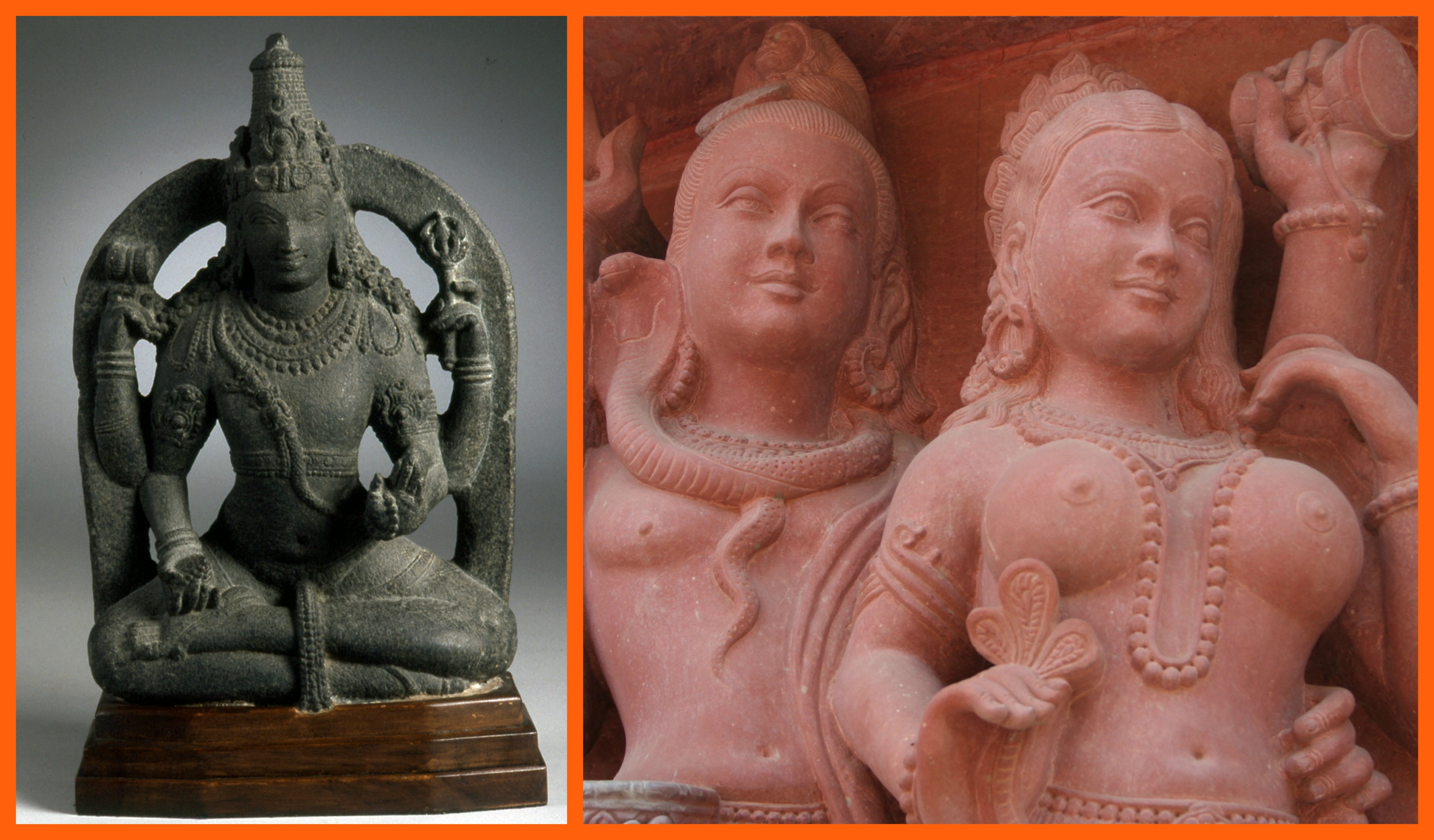 Shiva as yogi in a 10th century statue Shiva as householder in a temple relief iconography The image is a derivative work on the following two images available on wikimedia commons: Indian - Shiva - Walters 25254.jpg A stone carving of Shiva and Parvati.jpg